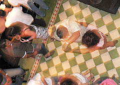 Attribution-Share Alike 2.0 Generic